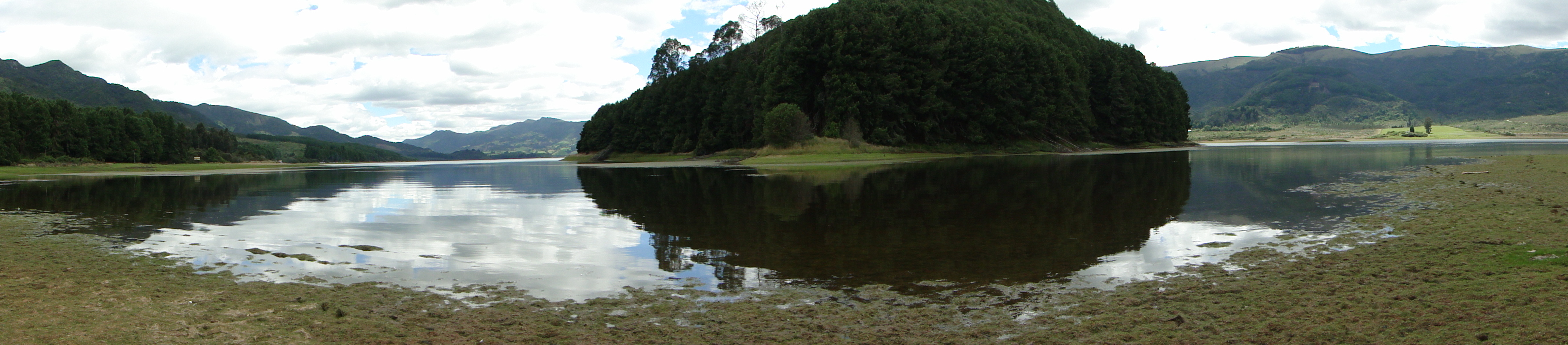 represa del nausa